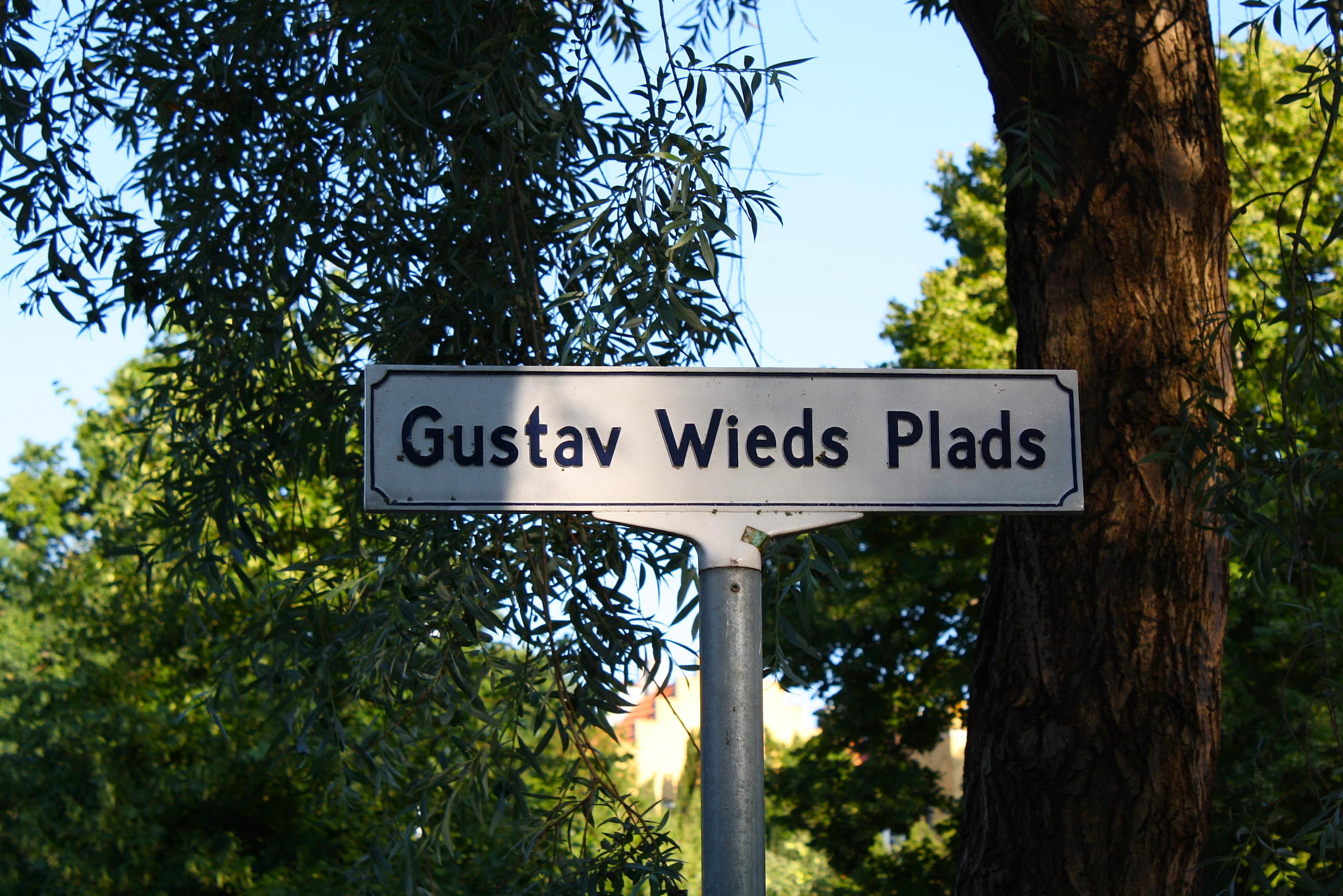 Gustav Wied Square in Roskilde, Denmark